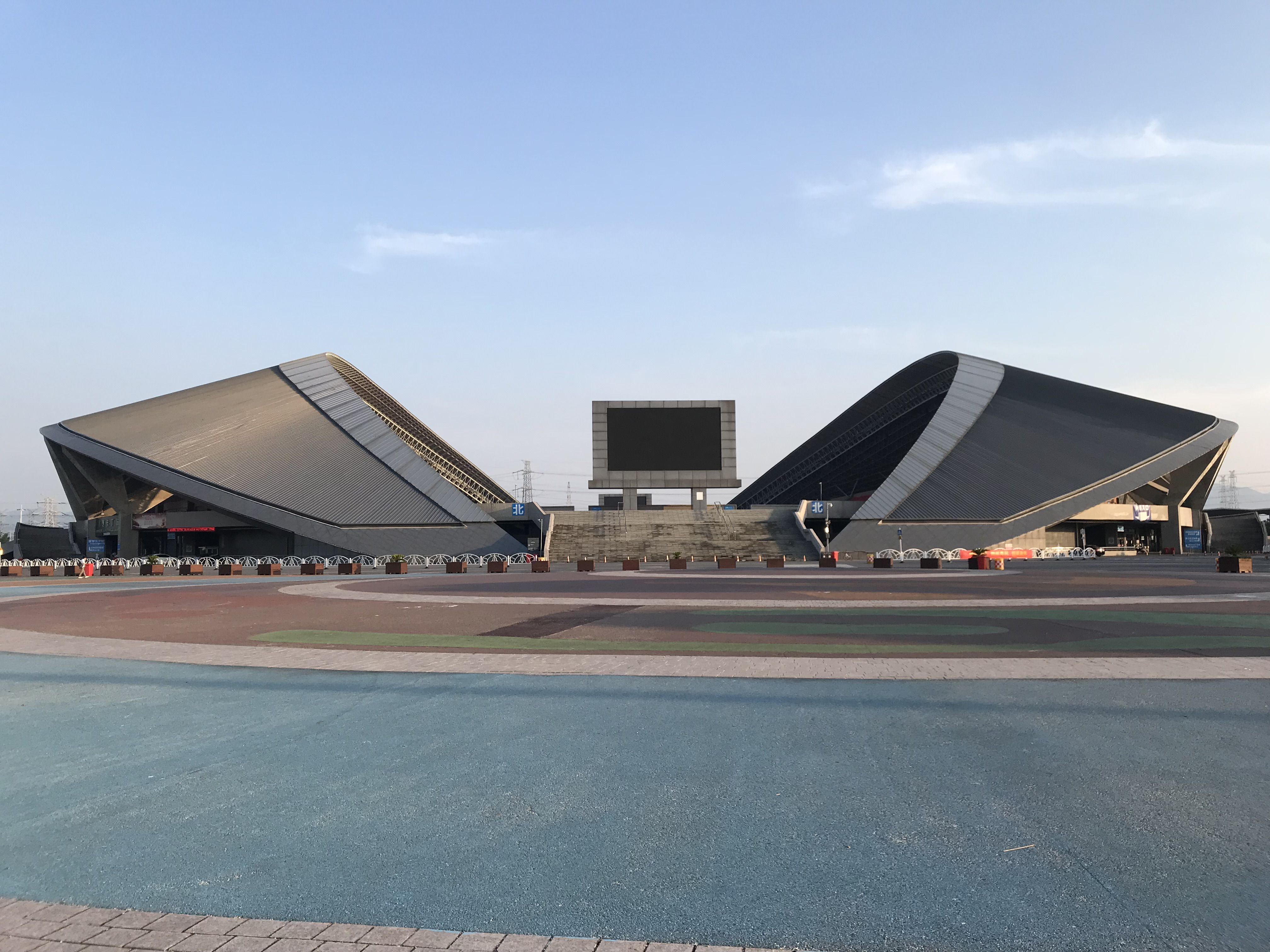 201806 Stadium at Jinhua Sports Center